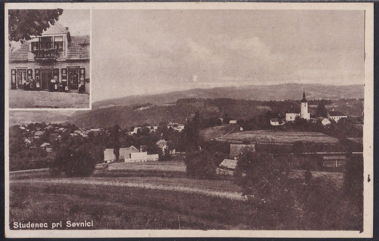 Postcard of Studenec pri Sevnici.